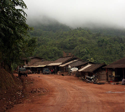 The main road, Xinzhai, Mengla County, Yunnan, China.